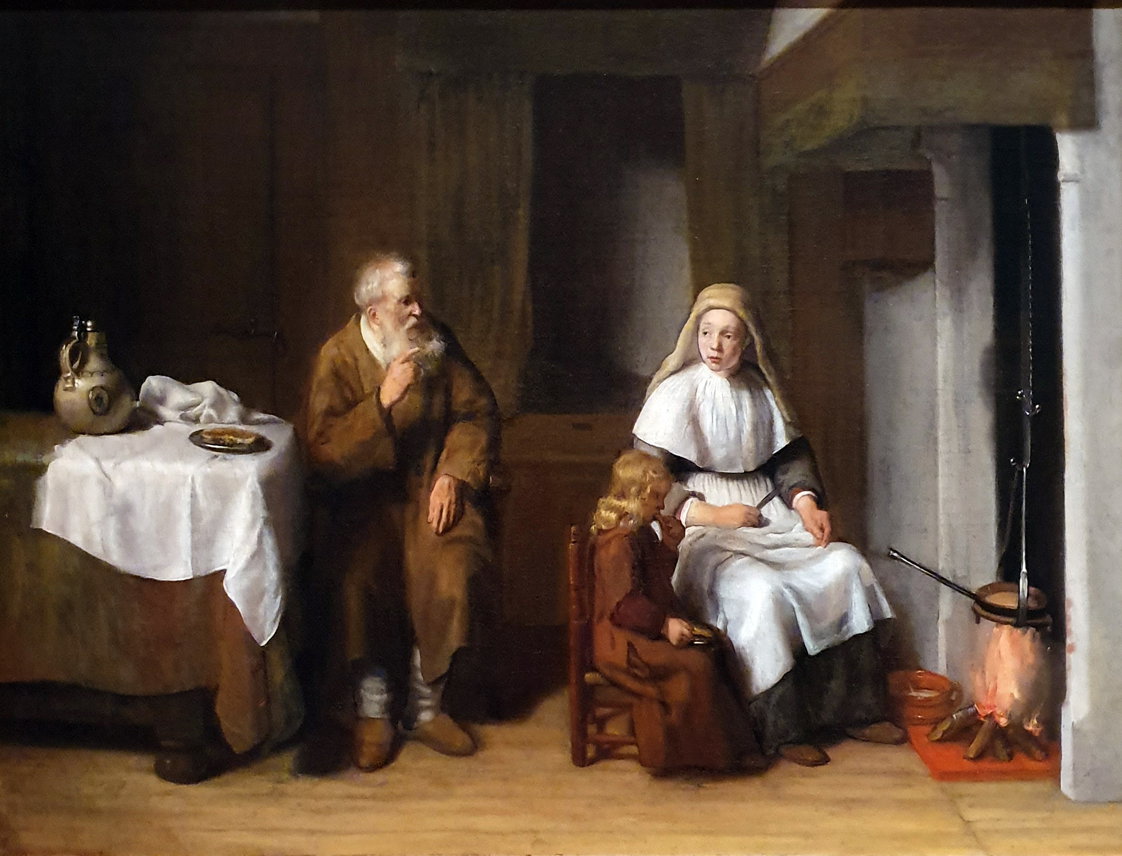 Abraham van Dijck - Il profeta Elia con la vedova di Serepta e suo figlio